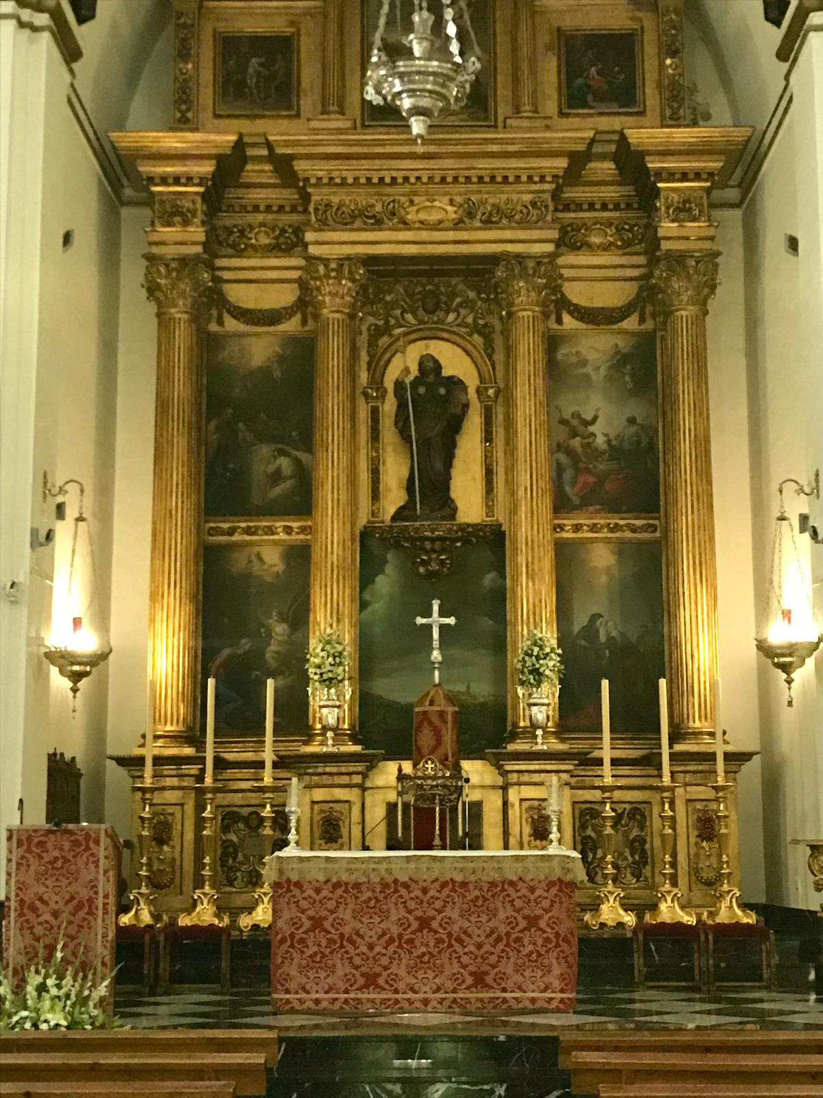 Greater Altarpiece of the Parish of Santiago Apóstol de Valdepeñas de Jaén.